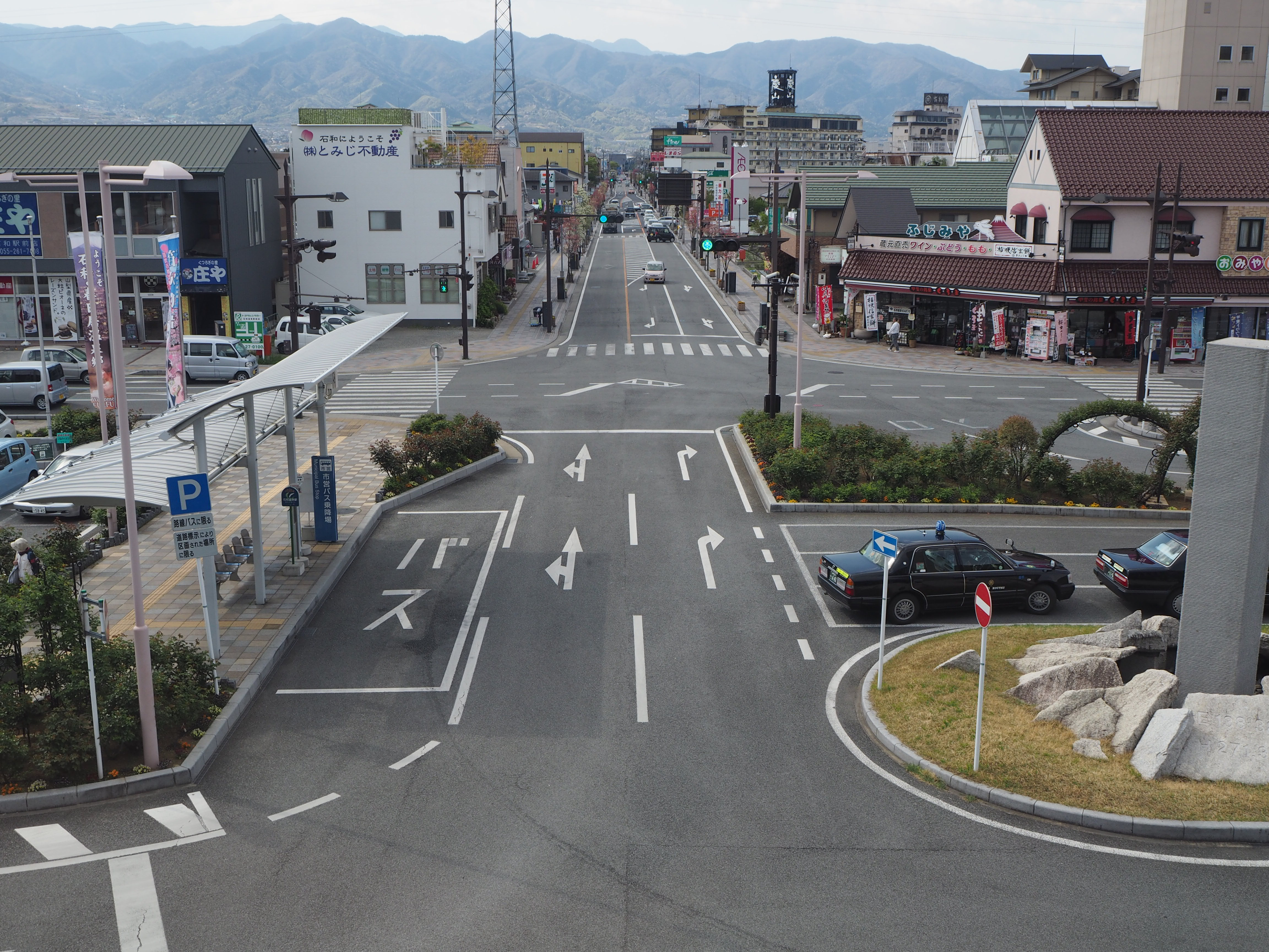 In front of Isawa-onsen Station